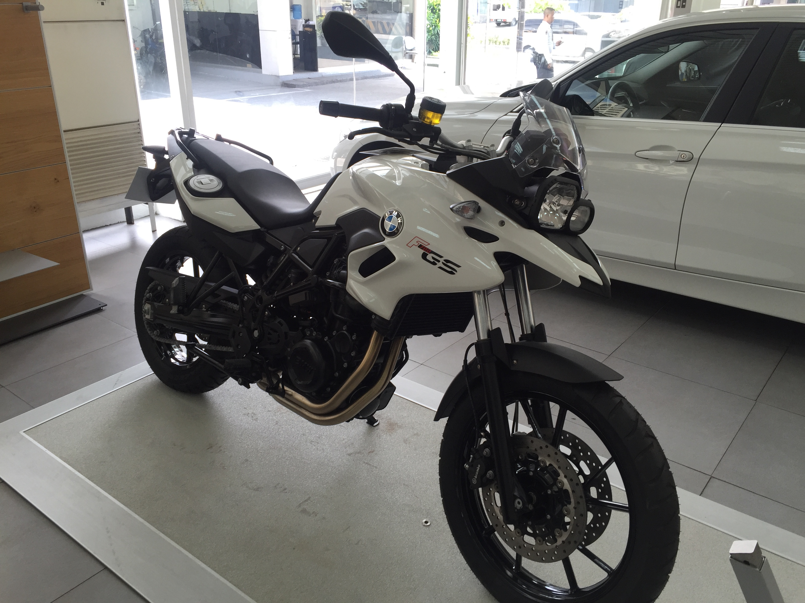 A BMW F700GS on display at Autohaus BMW.